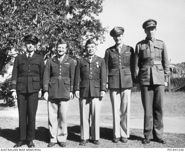 Brisbane, Qld. 1944. Executive directors of the Central Bureau of Intelligence with Captain Clarence S. Yamagata after he had received his US Legion of Merit award. The bureau was involved in the interception and decoding of Japanese military signals and Captain Yamagata was a top translator from US Army Signal Corps attached to the bureau. Left to right: Wing Commander H. Roy Booth, RAAF, deputy director of the bureau; Colonel A. Sinkov, USA, senior executive officer, Captain C. S. Yamagata, Colonel H. Erskine, USA, deputy director, Colonel A. W. Sanford, AIF, deputy director.